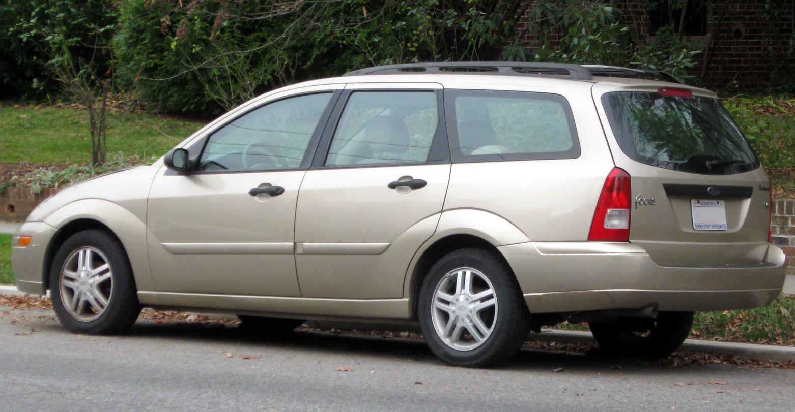 2000-2004 Ford Focus photographed in Washington, D.C., USA.